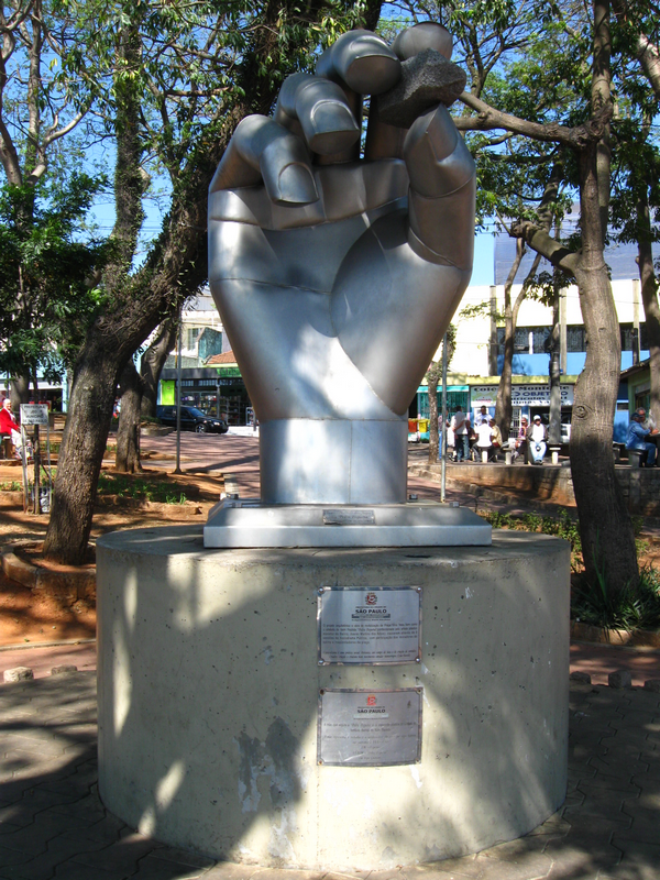 "Small Rock" monument, located in the disctrict of Itaim Paulista, São Paulo, Brazil. Author: Juarez Martins dos Anjos. Inaugurated on September 26, 2008.